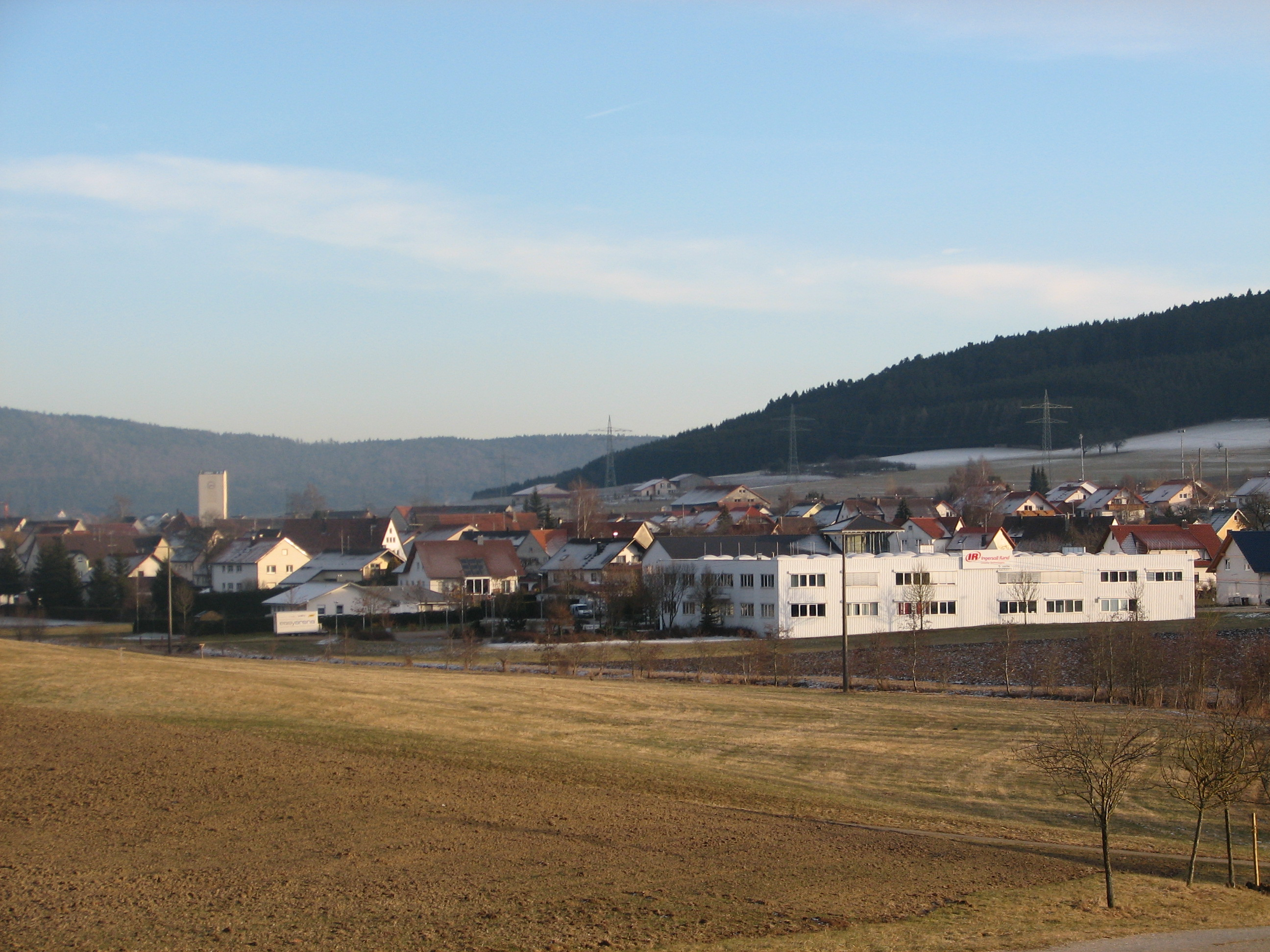 Panoramic view of Ingersoll Rand Security Technologies in Durchhausen